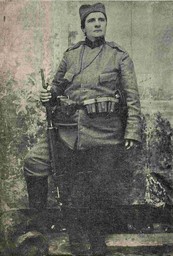 Serbian soldier Milica Lazović, daughter of Marko Miljanov. Photograph published in 1913.